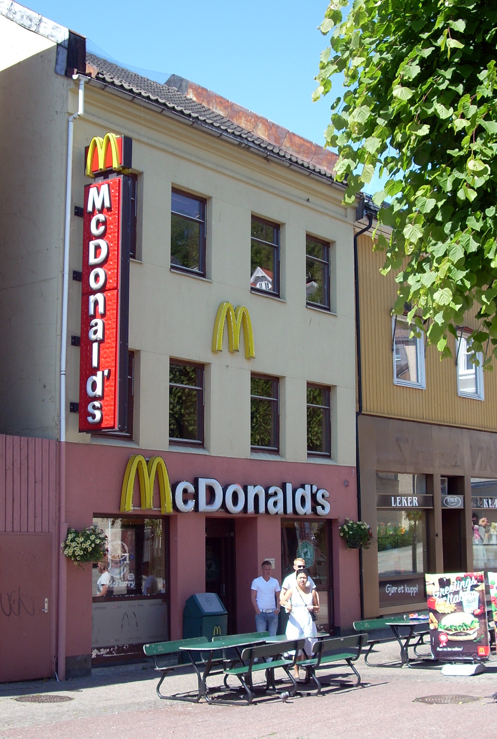 McDonalds Arendal, Norway